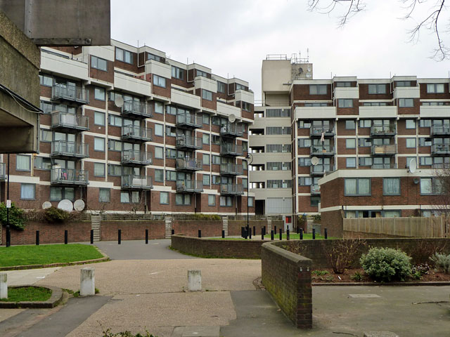 Nightingale Estate, E5